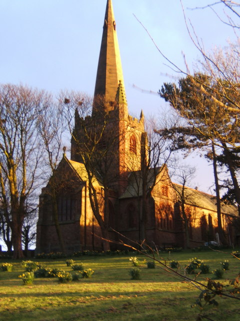 St George's parish church, Millom, Cumbria, seen from the north in evening sunshine